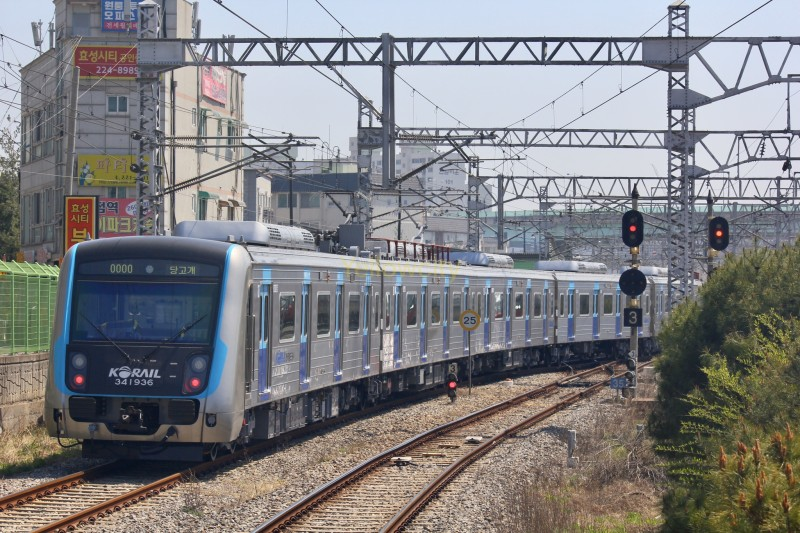 New train in Seoul underground (Line 4)